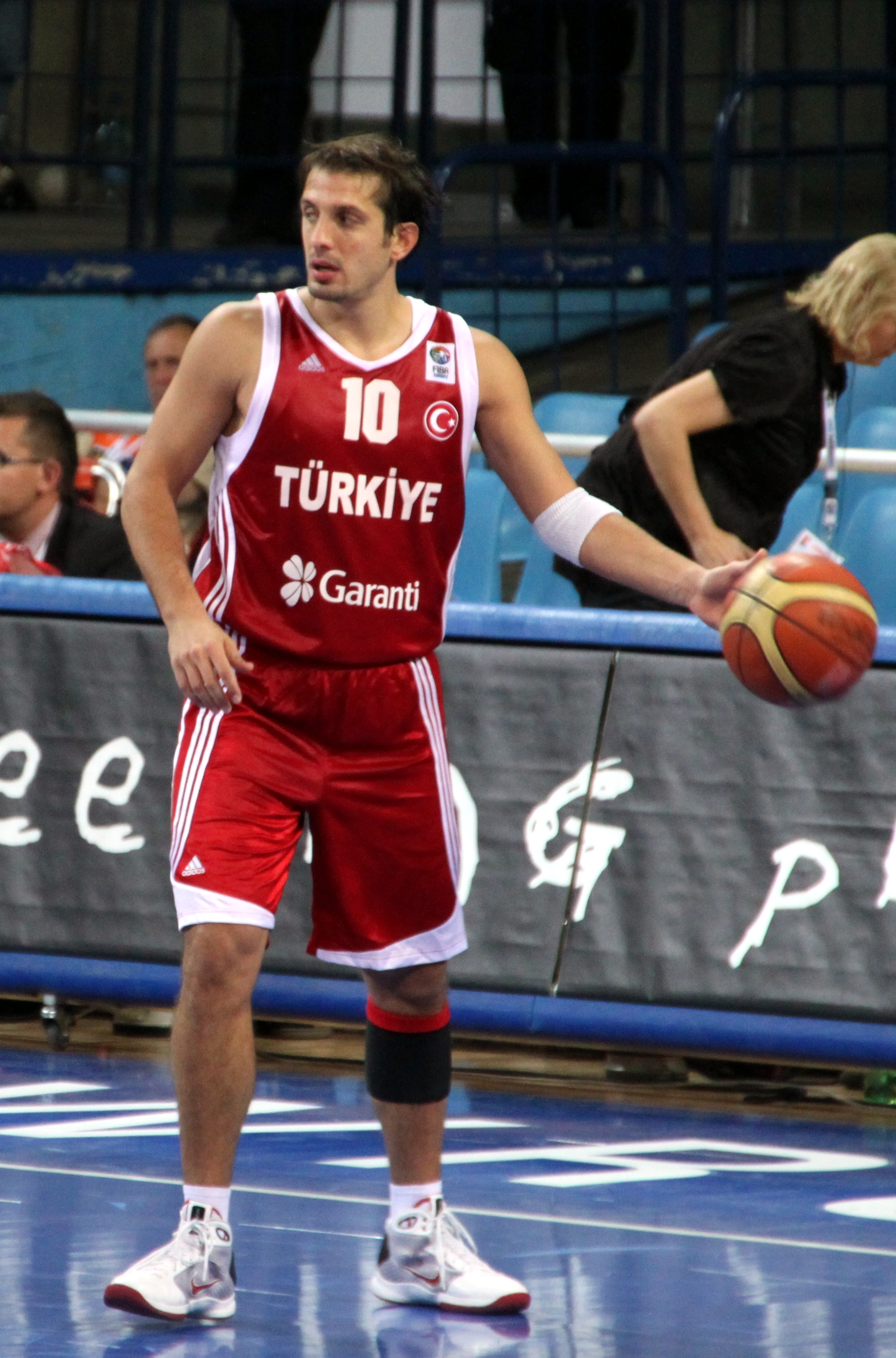 Kerem Tunçeri, Point Guard of the Turkish team... (Bulgaria - Turkey 66-94, Eurobasket 2009)